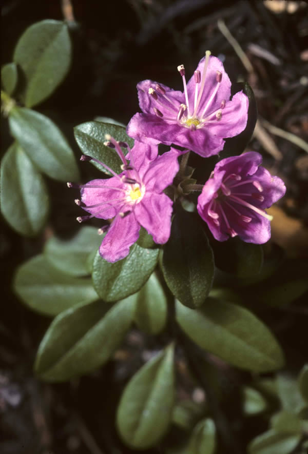 Kalmiopsis fragrans (North Umpqua kalmiopsis), a critically imperiled flowering plant endemic to Oregon